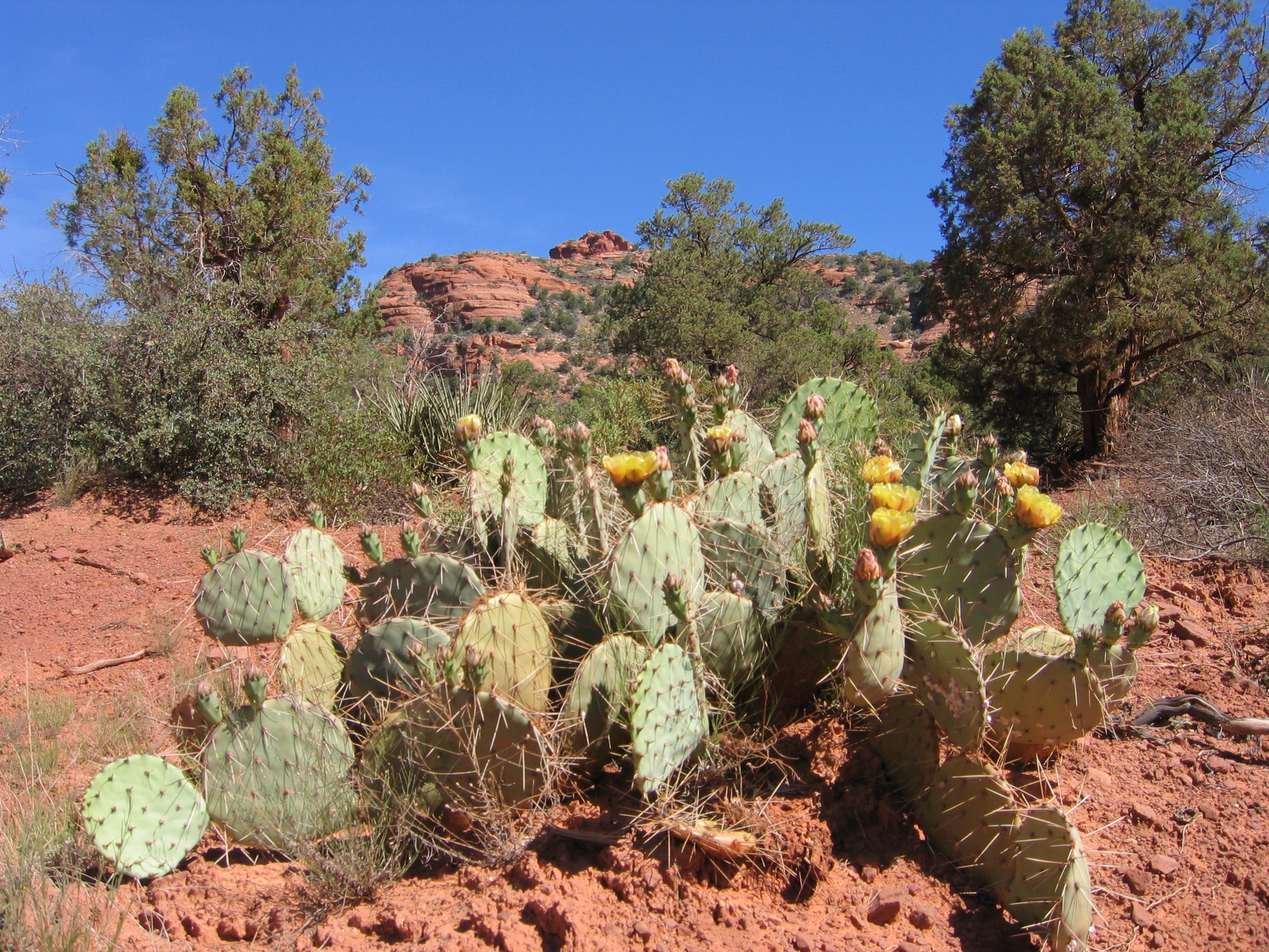 Cacti